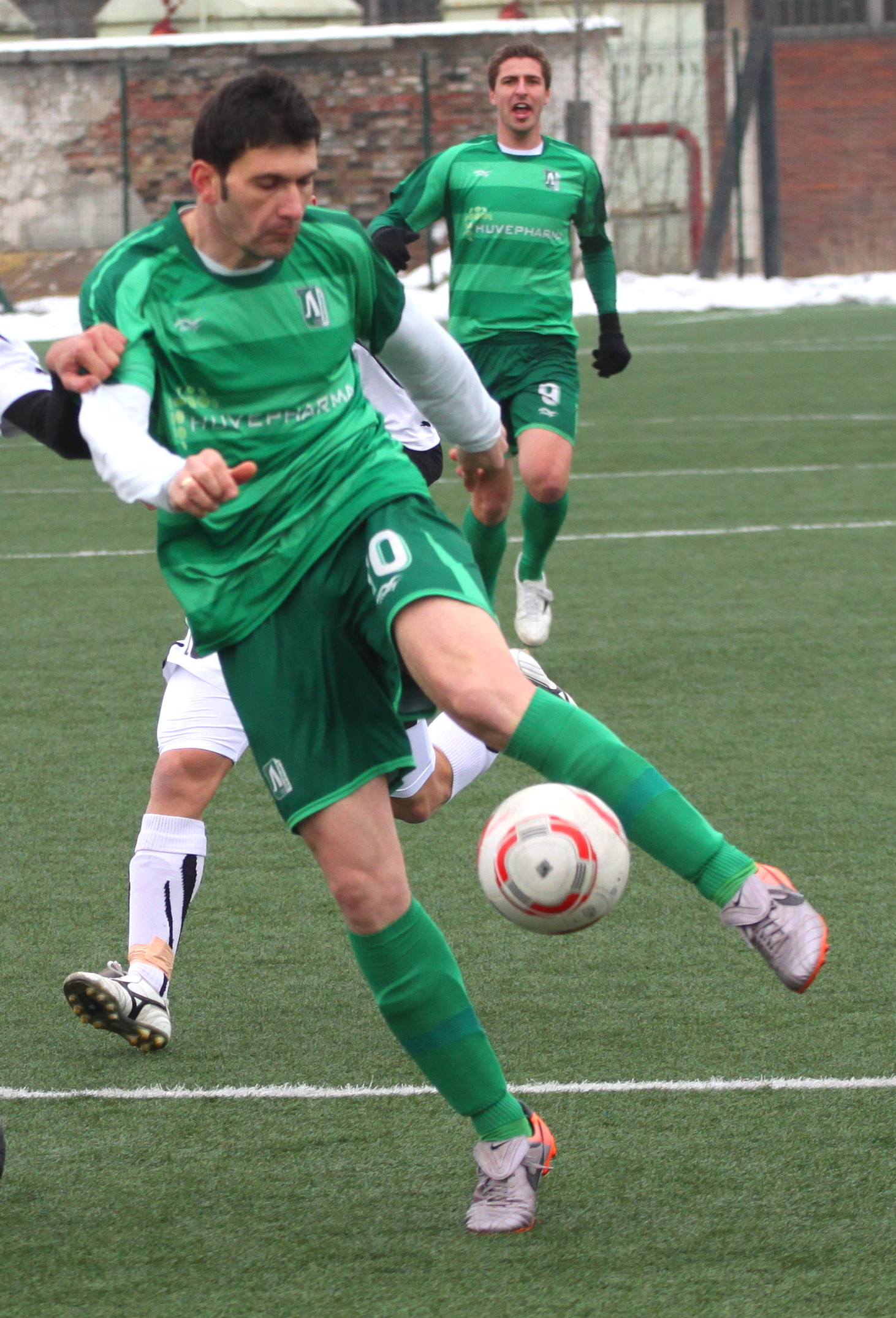 Todor Kolev (Bulgarian: Тодор Колев) (born August 2, 1980) is a football forward from Bulgaria who plays for Ludogorets Razgrad as a central forward.